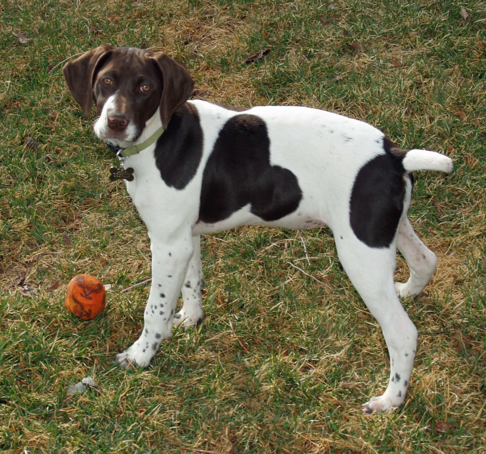 German Short Haired Pointer